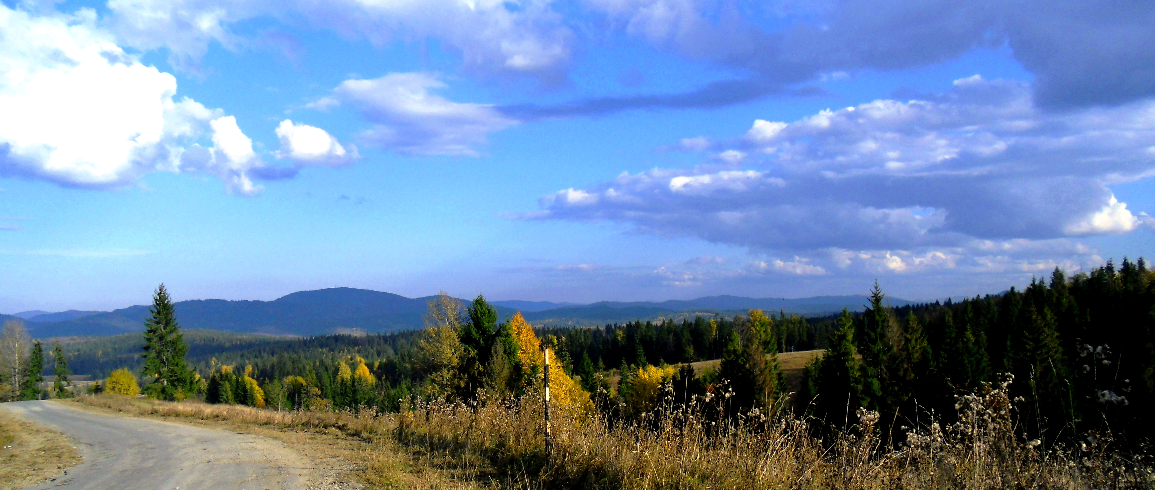 Part of the Eastern Carpathians (Ukraine, Skole Beskids)